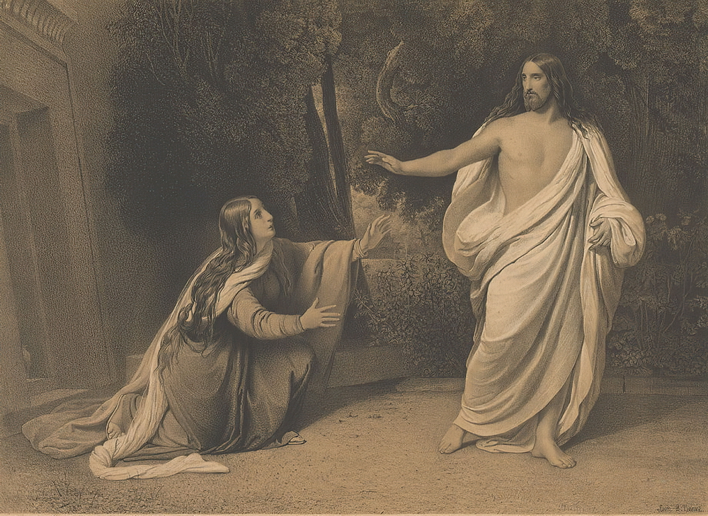 The Savior’s Appearance to St. Mary Magdalene. After the painting by Prof. Alexandr Ivanov (lithograph by Vasily Timm)